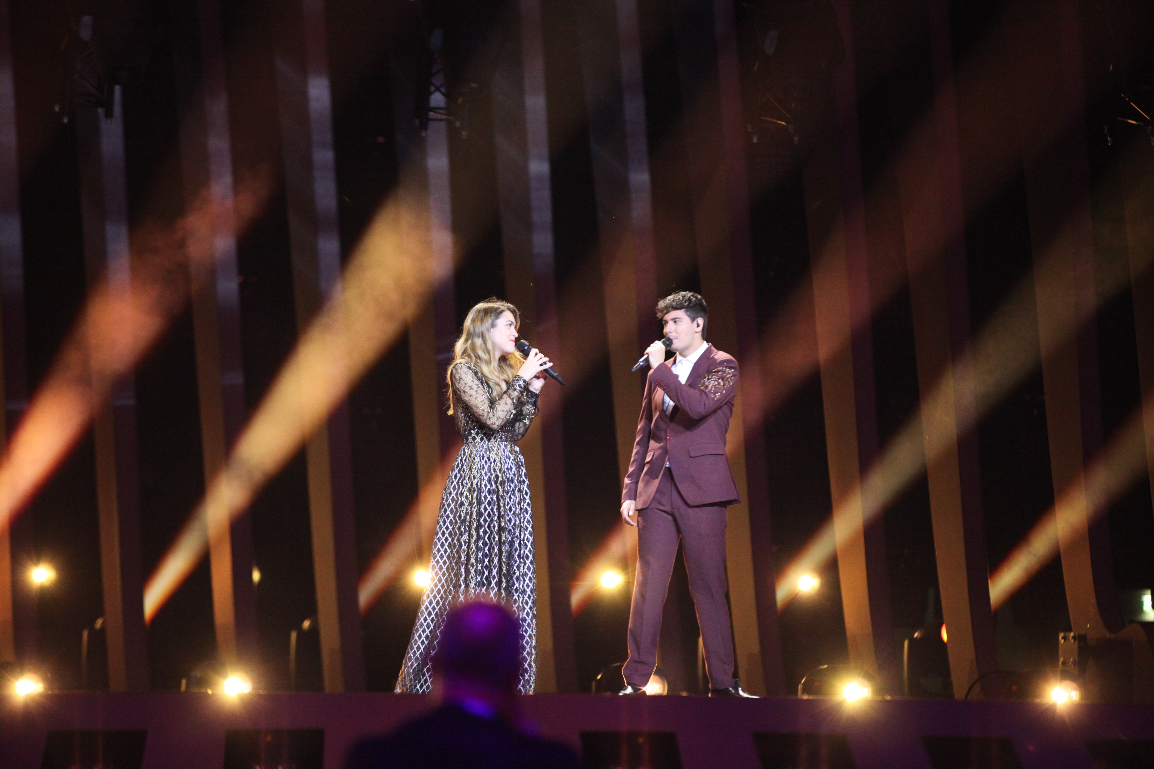 Amaia & Alfred representing Spain with the song "Tu canción" during a rehearsal before the grand final of the Eurovision Song Contest 2018 in Lisbon.